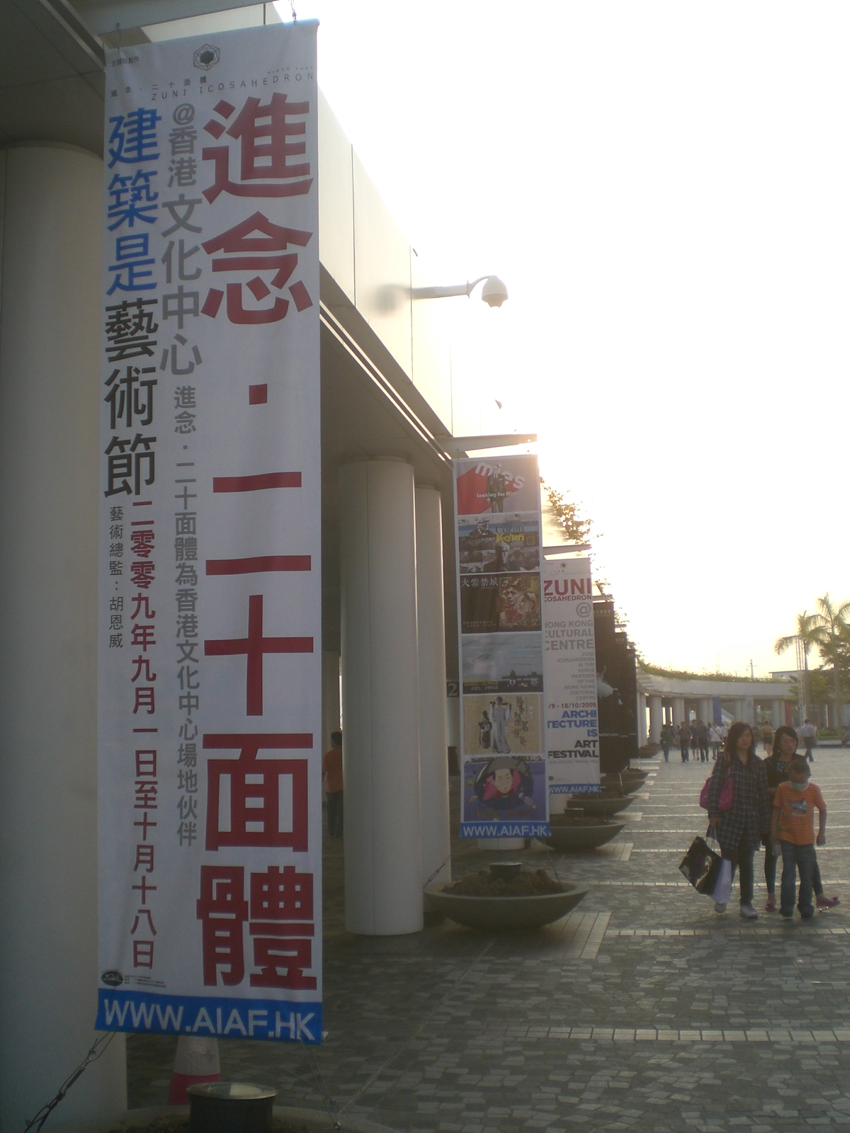 尖沙咀zh:黃昏 進念二十面體